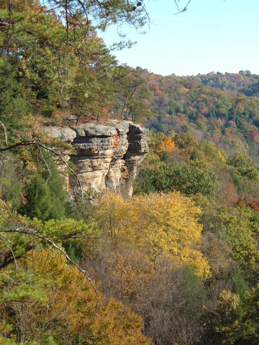 Conkles Hollow in the Hocking Hills State Park, Hocking County, Ohio. Taken by WKC.